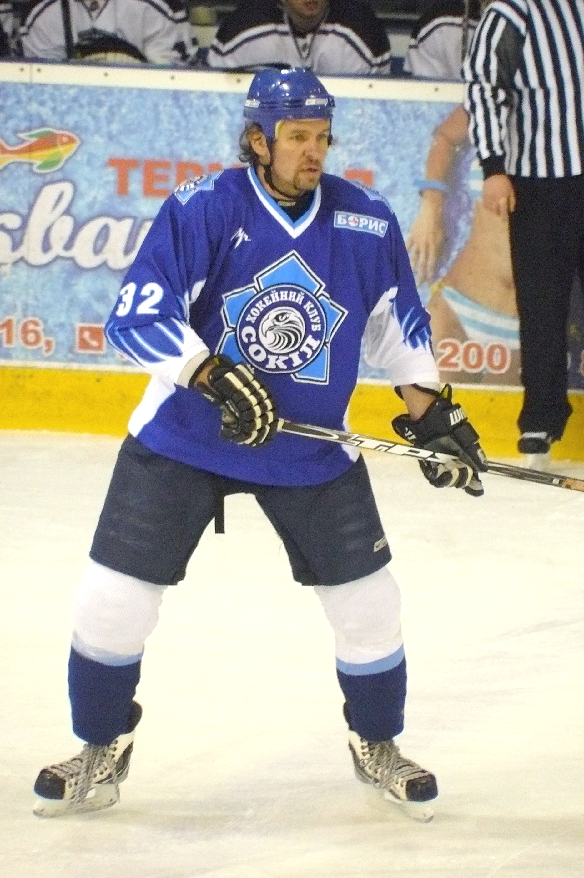 Defender Yuri Gunko #32 of the Sokil Kyiv during the Belarus Extraliga game against the HK Mogilev on January 6, 2011 at the Terminal Arena in Brovary, Ukraine. Sokil Kyiv won the game 3:1.